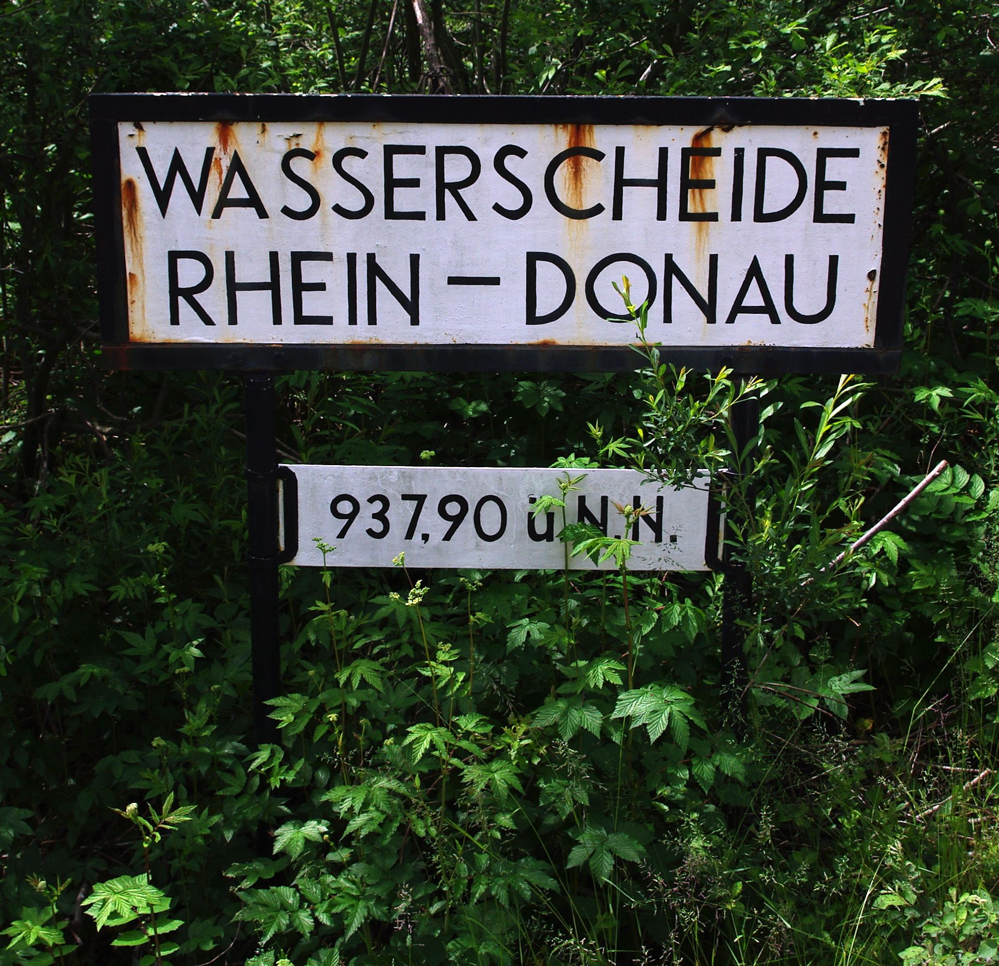 picture of an old board along the former railway track Kempten-Isny (currently used as a bike path).